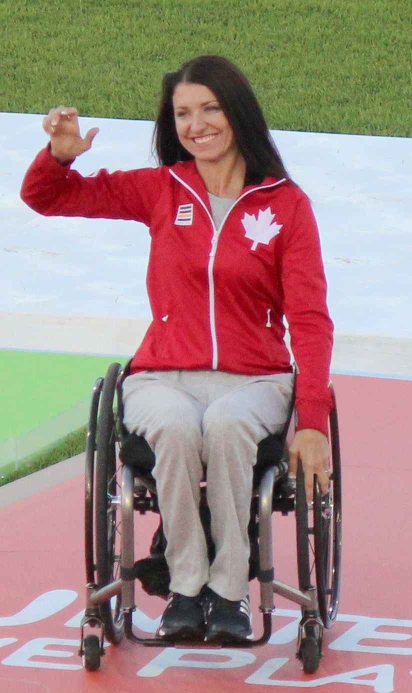 Michelle Stilwell, 2015 Parapan Americans